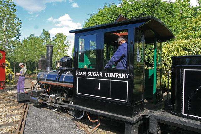 Statfold Barn Railway - recently restored locomotive This is an 0-4-0 tender engine that was built by Davenport in the USA in 1917 and worked at the Bihar State Sugar Factory at Ryam, India. It arrived in 2013 and was a complete wreck when seen in March 2014 - SK2406 : Statfold Barn Railway - in need of some attention!. By September it was in the works - SK2406 : Statfold Barn Railway - firebox under repair SK2406 : Statfold Barn Railway - in the works. It was in steam at the March 2015 event.